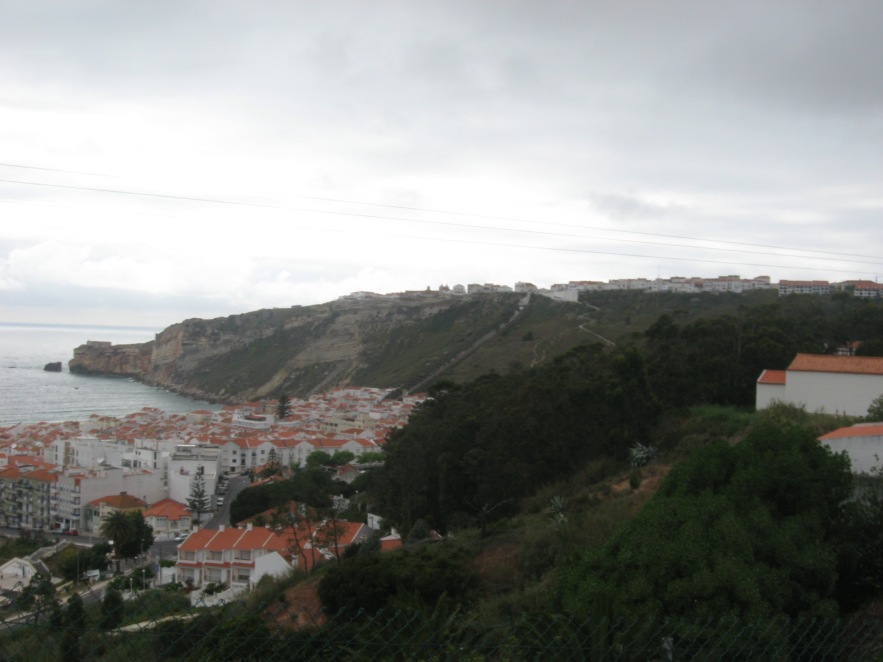 Nazaré, Portugal, view of Nazaré e Sítio from the old city of Pederneira